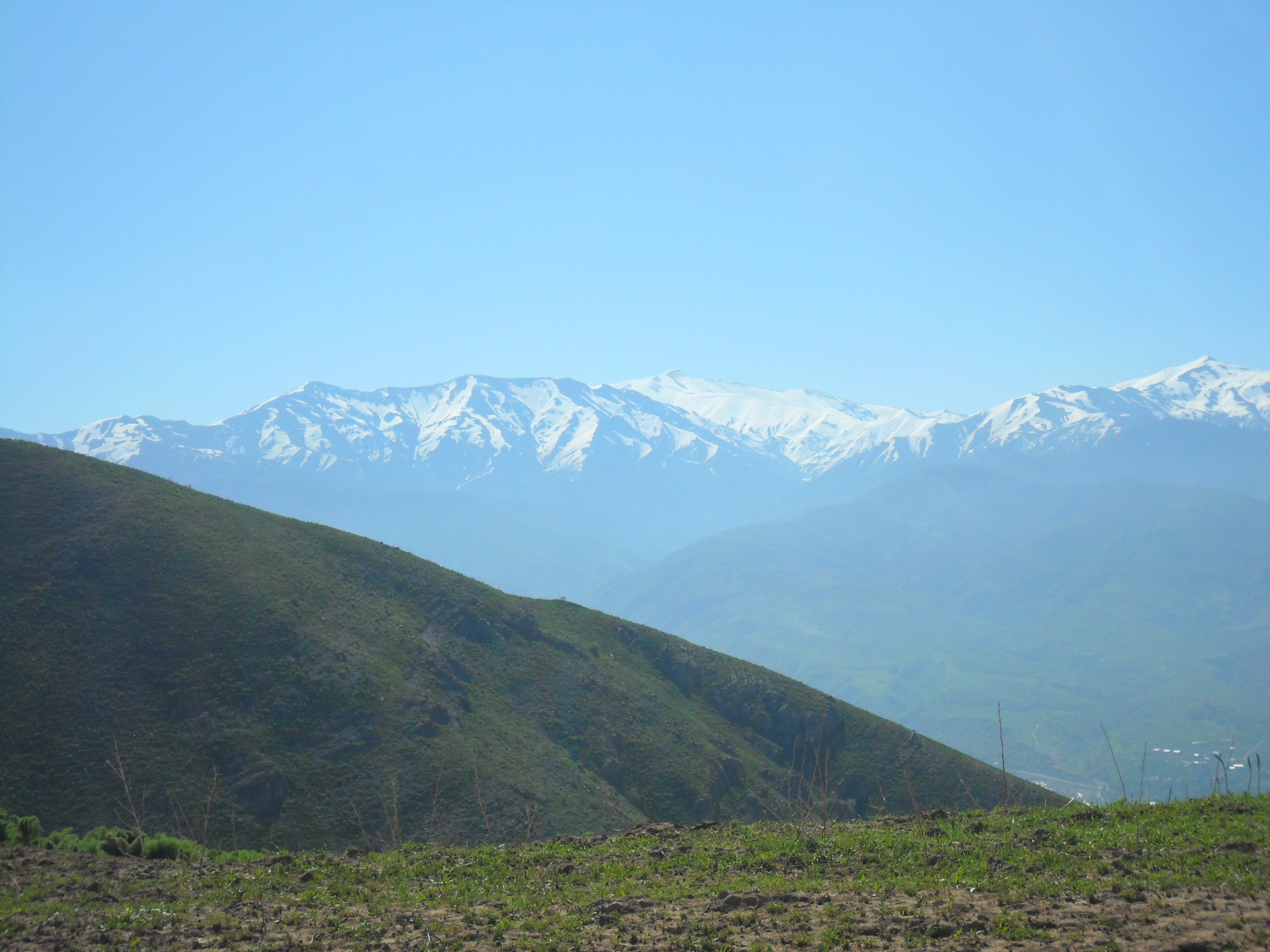 Kizilnura peak. View from Surenata mountain. Tashkent area, Uzbekistan